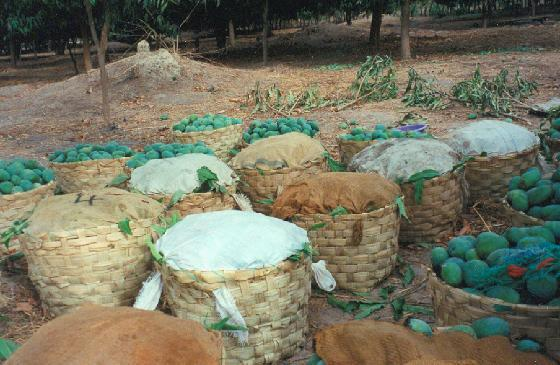 harvest, co-operative garden